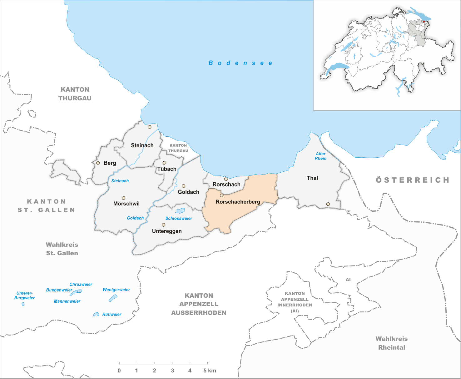 Municipality Rorschacherberg